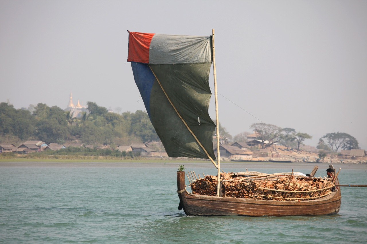 Kaladan river between Sittwe and Mrauk U